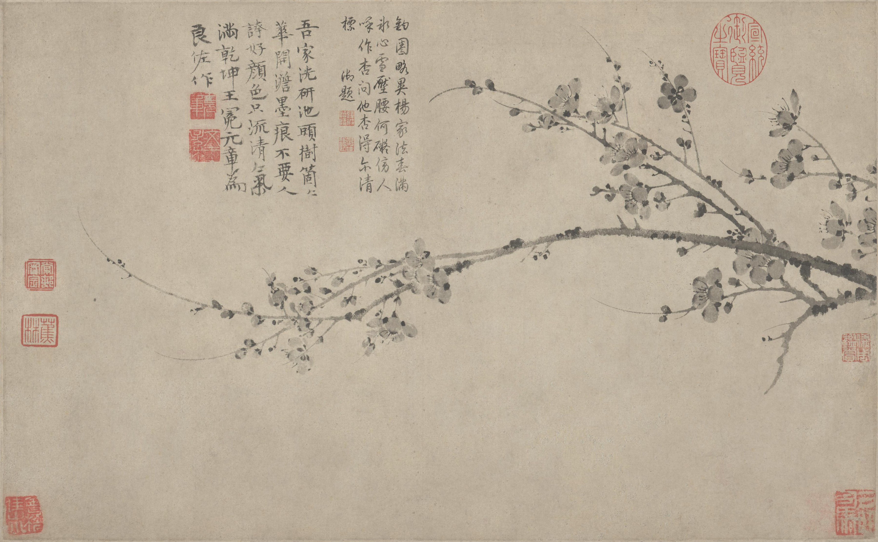 Ink Plum - Scroll, Ink on paper. 31.9 x 50.9 cm. Located in the National Palace Museum, Taibei. Cropped.